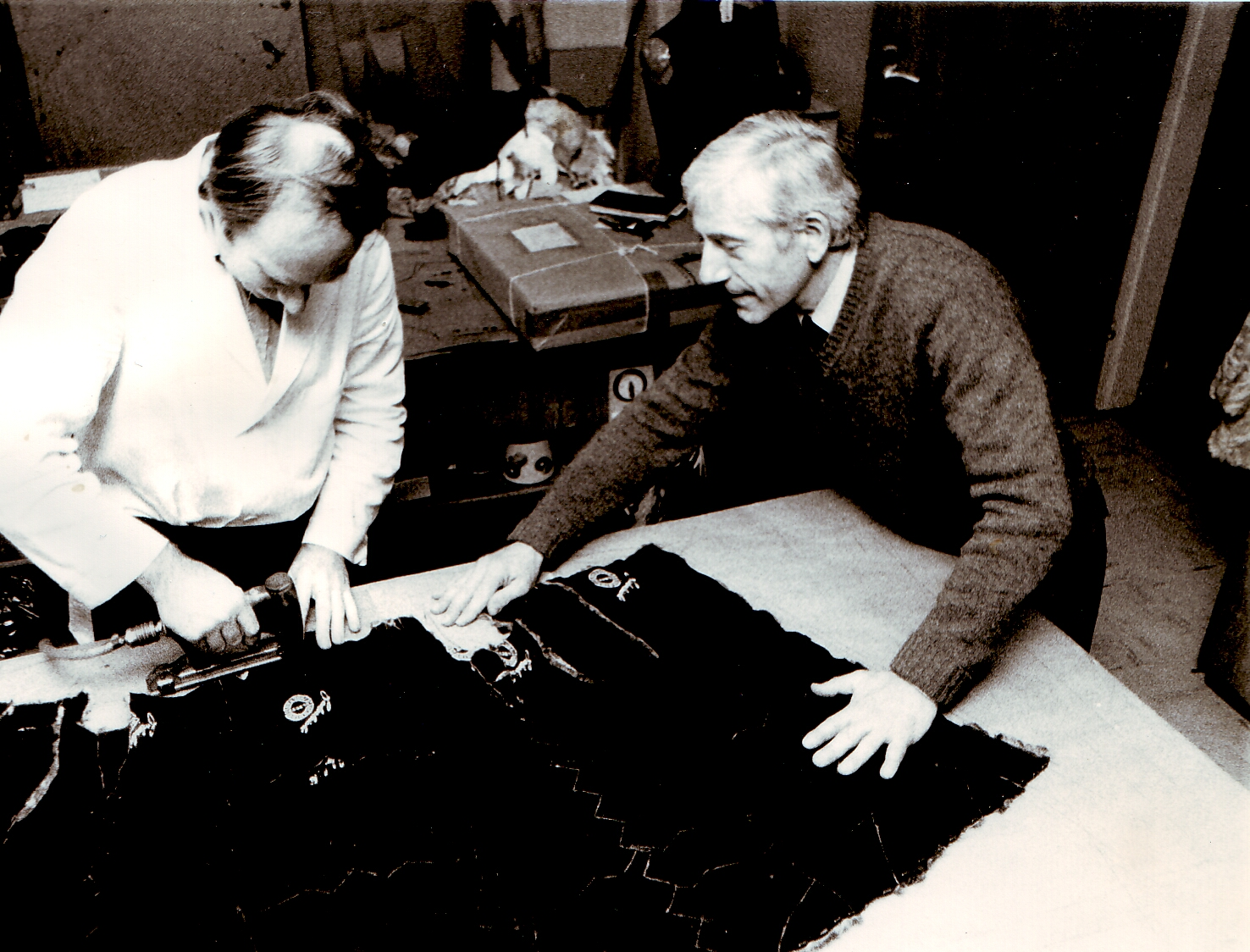 Furrier's, Pelze Hugendick in Schwelm/Westfalia, Germany